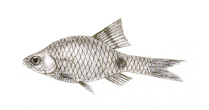 The species names / identity need verification - original names from plate are included here. The original plates showed the fishes facing right and have been flipped here. Barbus terio